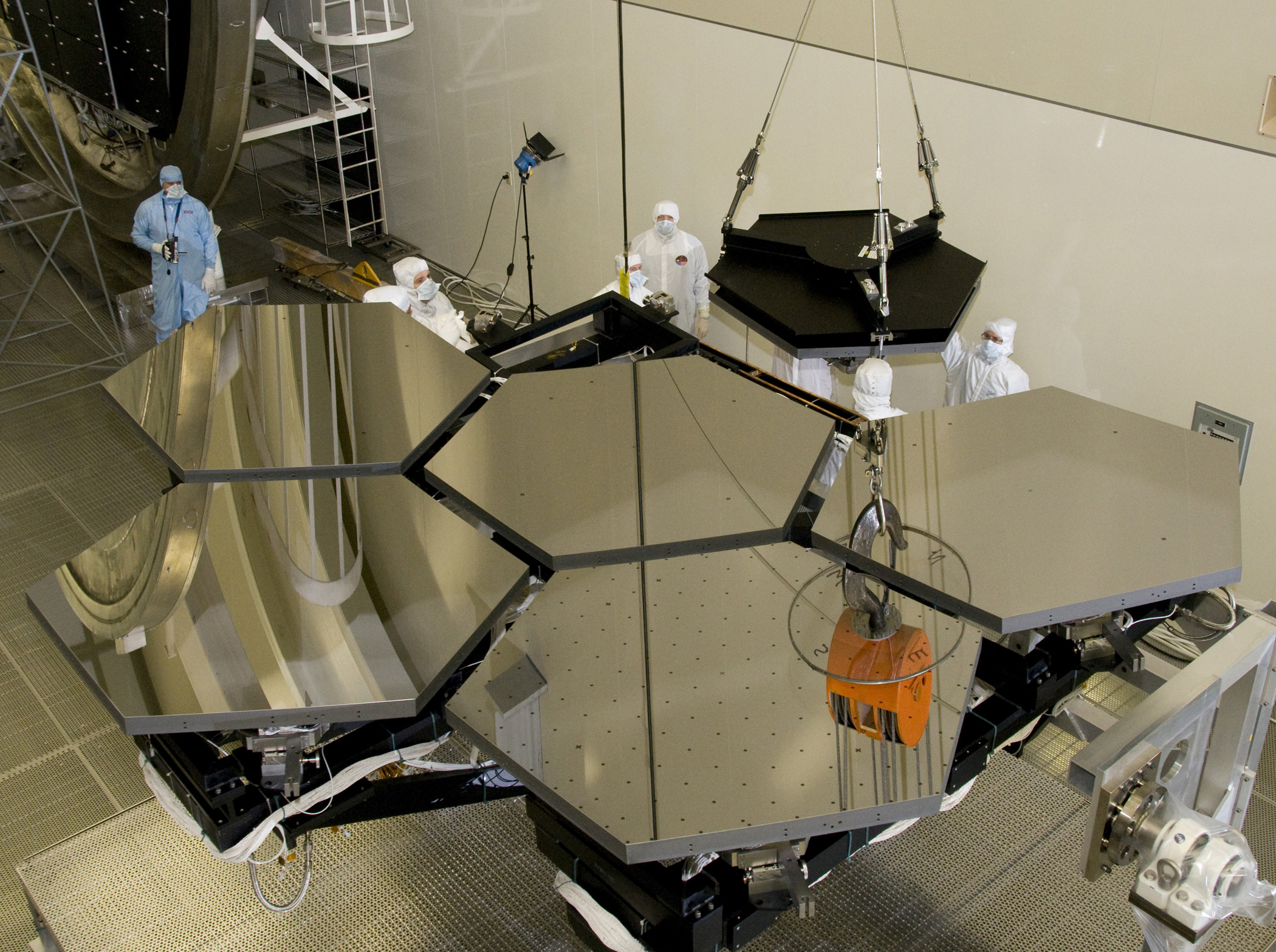 Six of the 18 James Webb Space Telescope mirror segments are being prepped to move into the X-ray and Cryogenic Facility, or XRCF, at NASA's Marshall Space Flight Center in Huntsville, Ala., to eventually experience temperatures dipping to a chilling -414 degrees Fahrenheit to ensure they can withstand the extreme space environment. The test chamber takes approximately five days to cool a mirror segment to cryogenic temperatures. Marshall's X-ray & Cryogenic Facility is the world's largest X-ray telescope test facility and a unique, cryogenic, clean room optical test location.